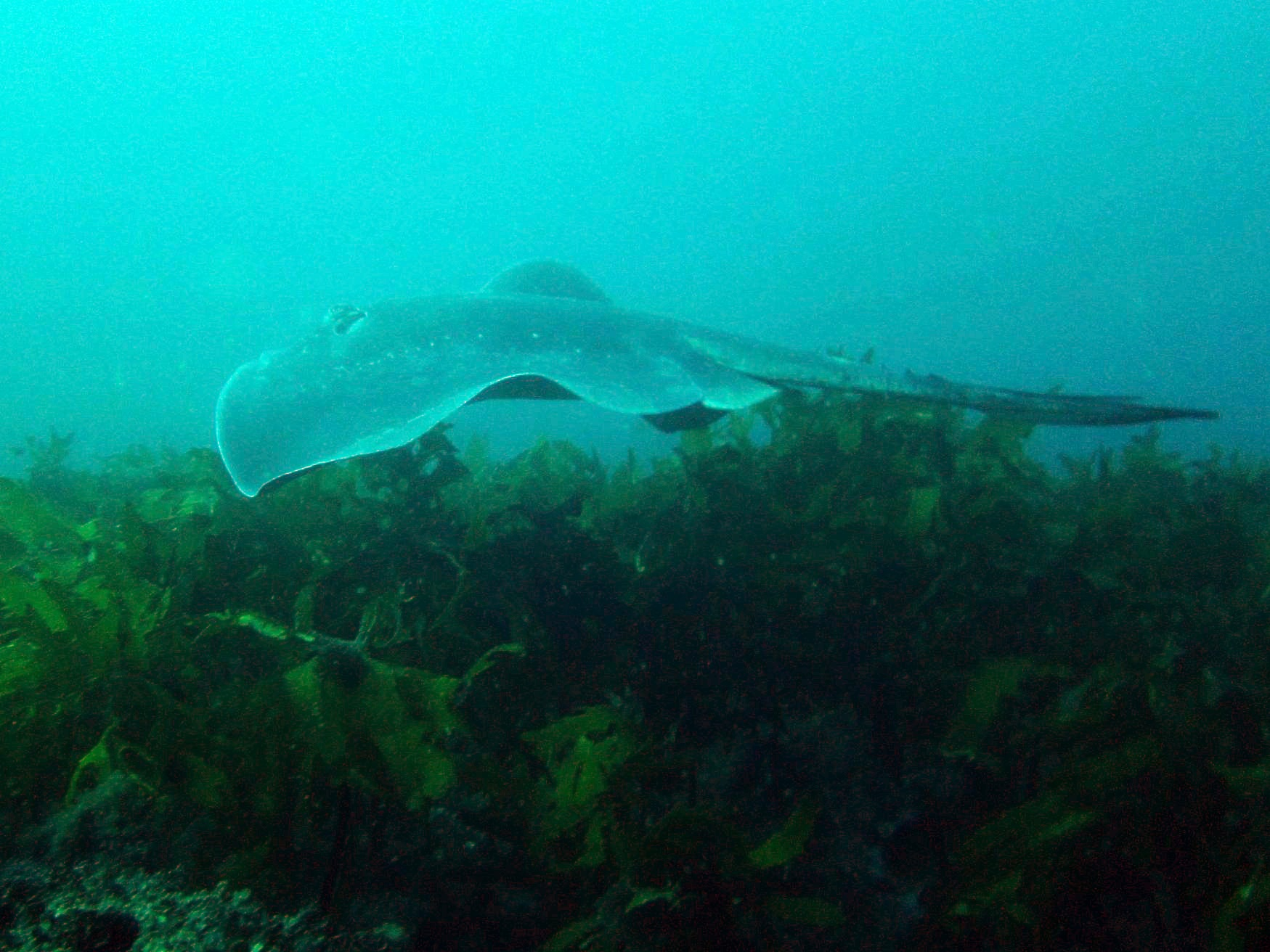 Short-tail stingray (Dasyatis brevicaudata) off Sydney